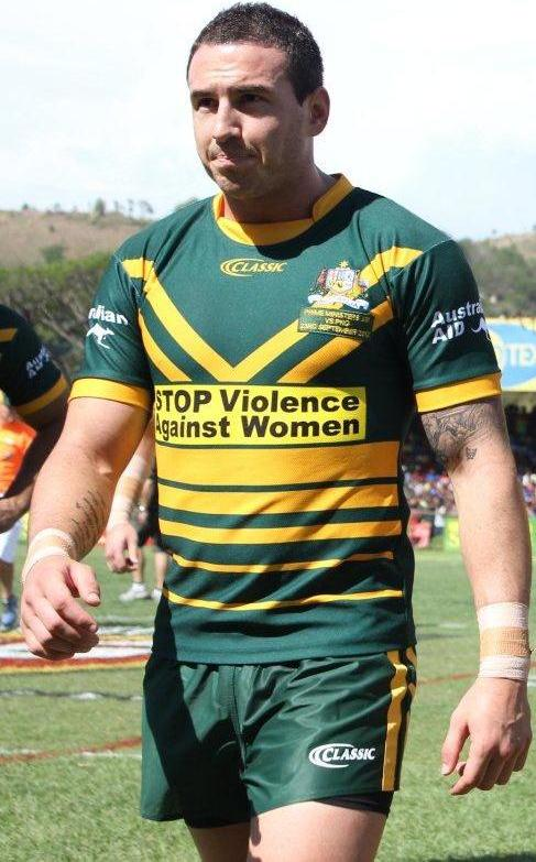 Australian players with Stop Violence Against Women message on jersey.